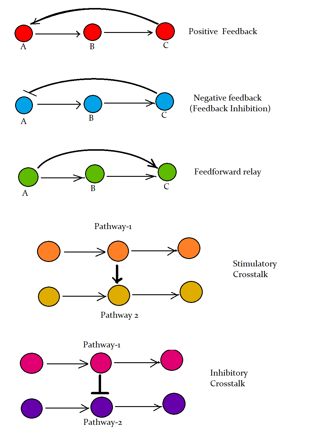 Elements of Signal transduction cascade networking. Adapted based on The Cell by G. M. Cooper